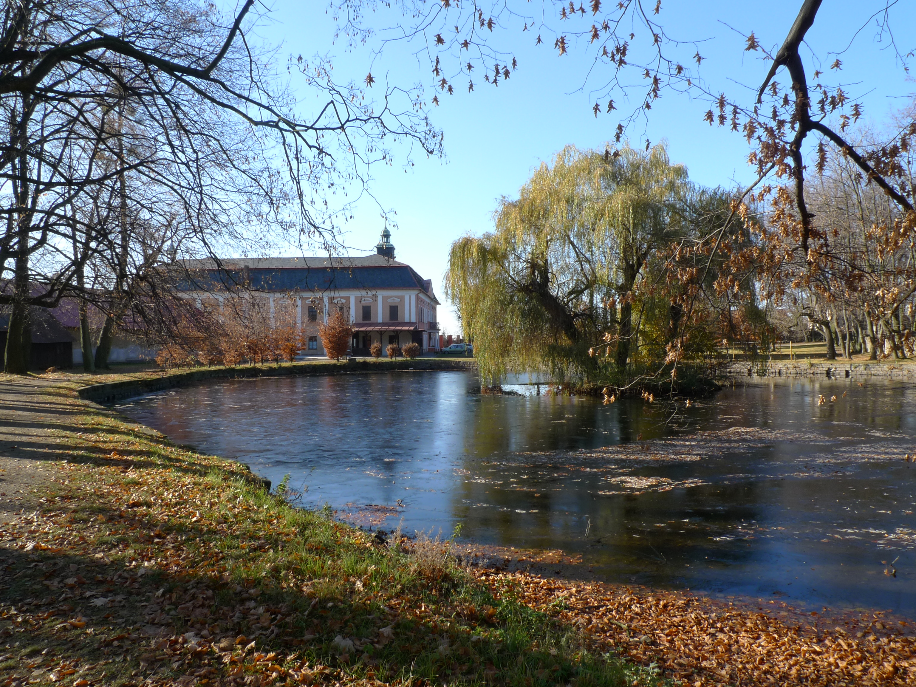 Dubová Castle